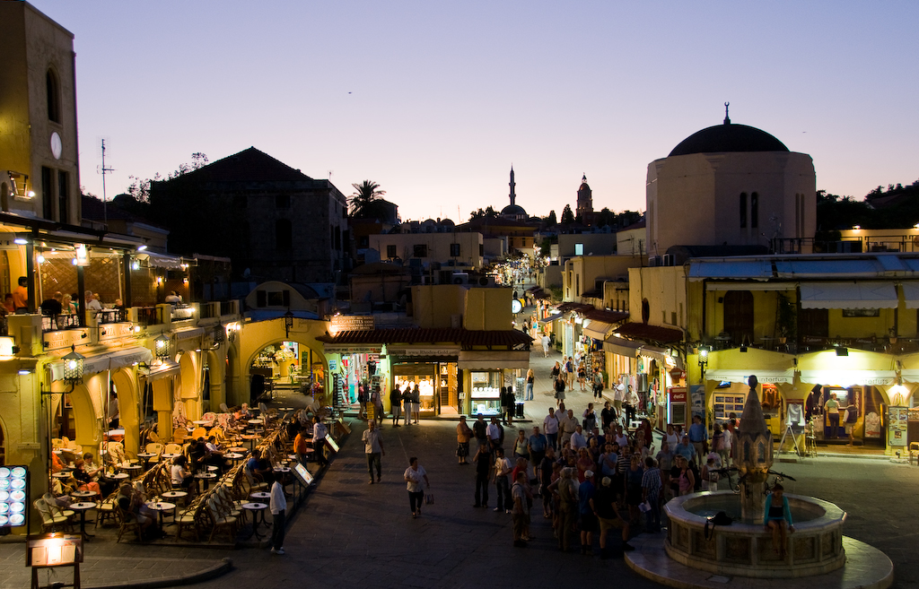 Rhodes town square.